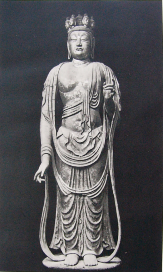 Goddess of Mercy) Nara period, second half of 8th century , Wood-core dry lacquer, gold leaf over lacquer, 121cm, Shōrin-ji, Sakurai, Nara, Japan